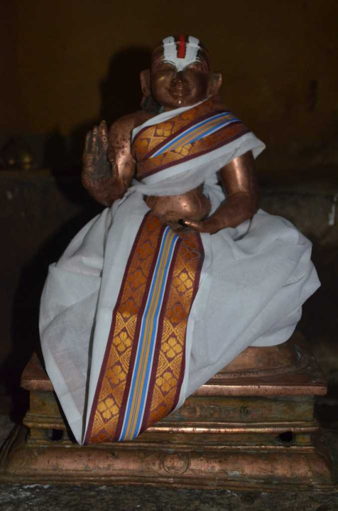 Swami Pillai Lokacharya